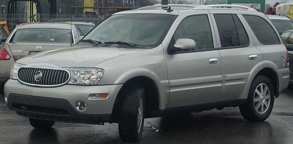 2006-2007 Buick Rainier photographed in Montreal, Quebec, Canada.